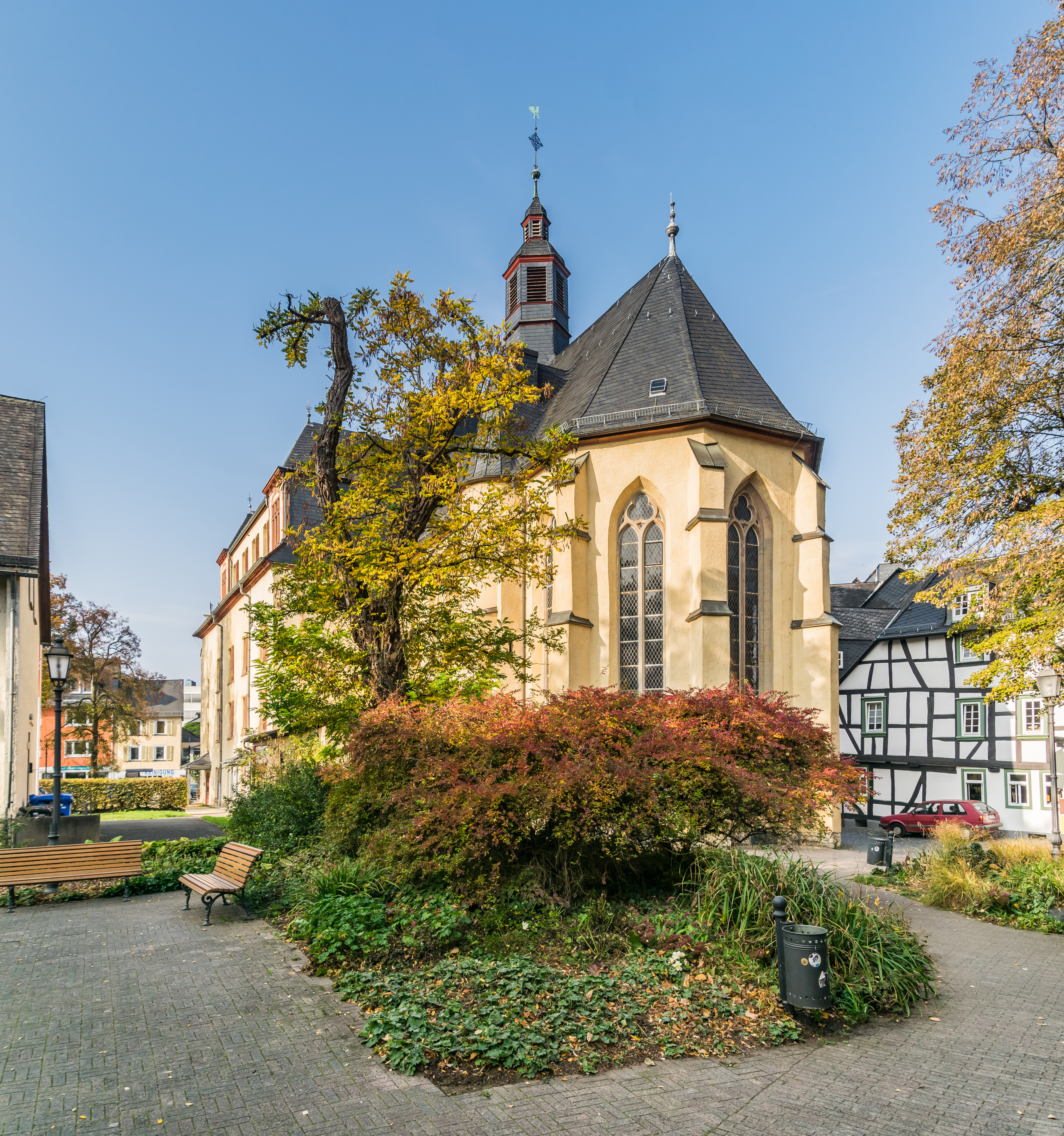 Building at Schillerplatz 8 in Wetzlar, Hesse, Germany